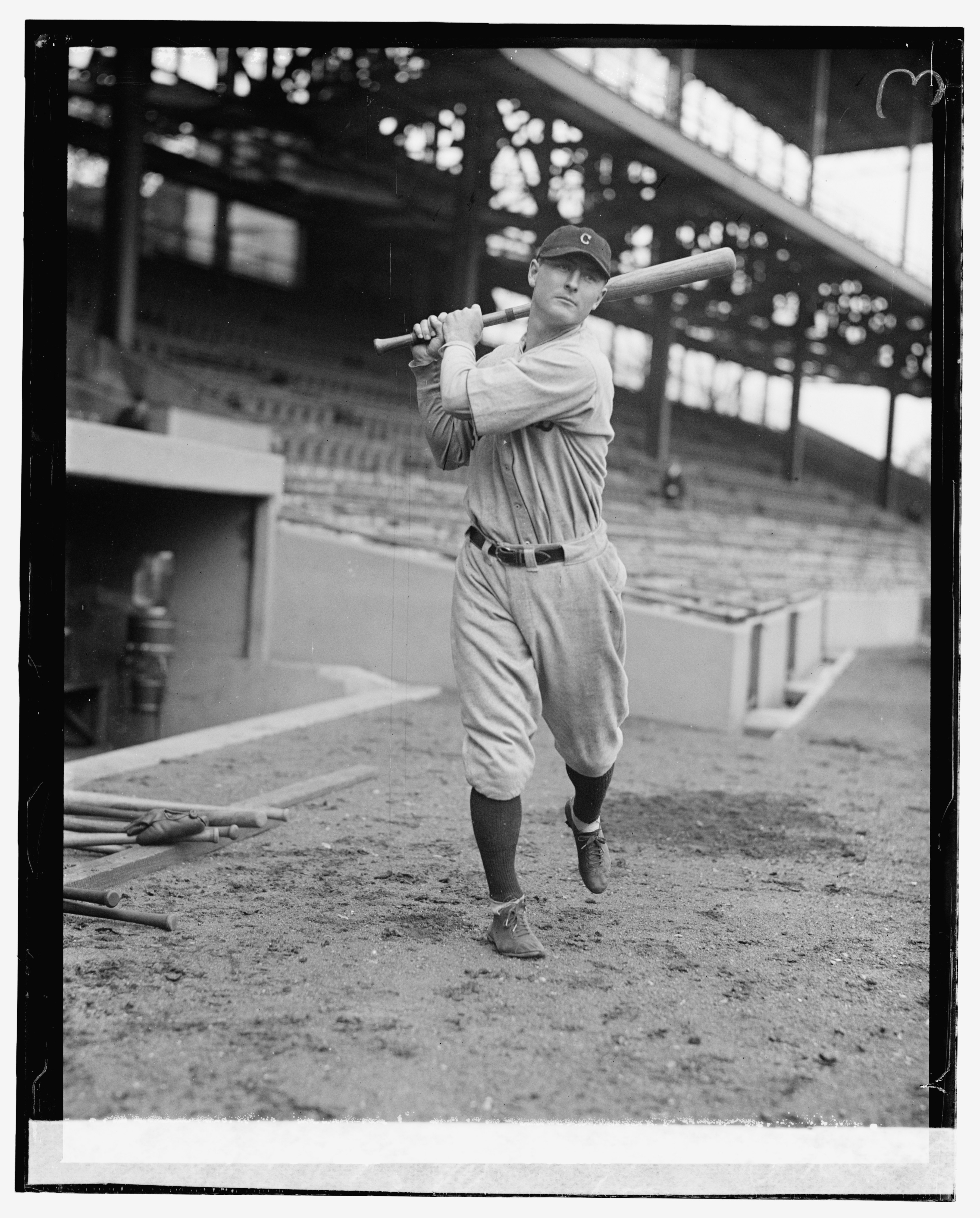 Title: Summa, Cleveland, 1924 Abstract/medium: National Photo Company Collection (Library of Congress) Physical description: 1 negative